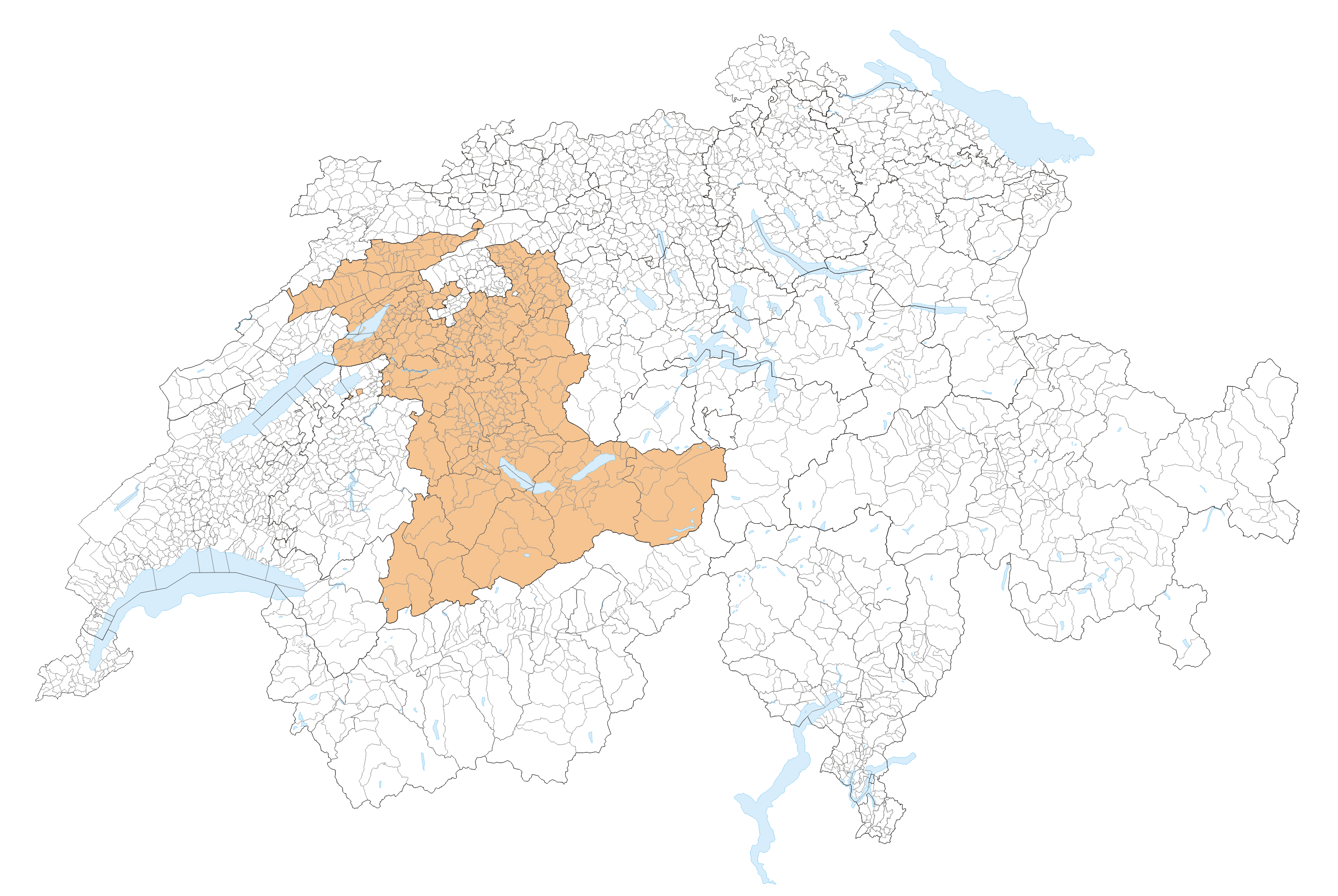 Kanton Bern